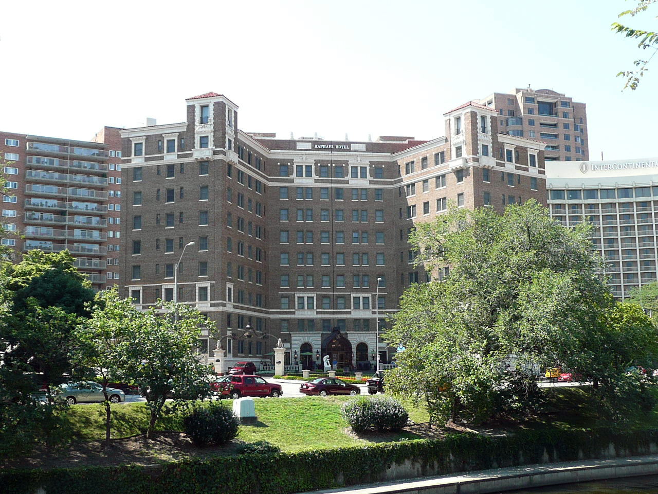 Villa Serena Apartment Hotel